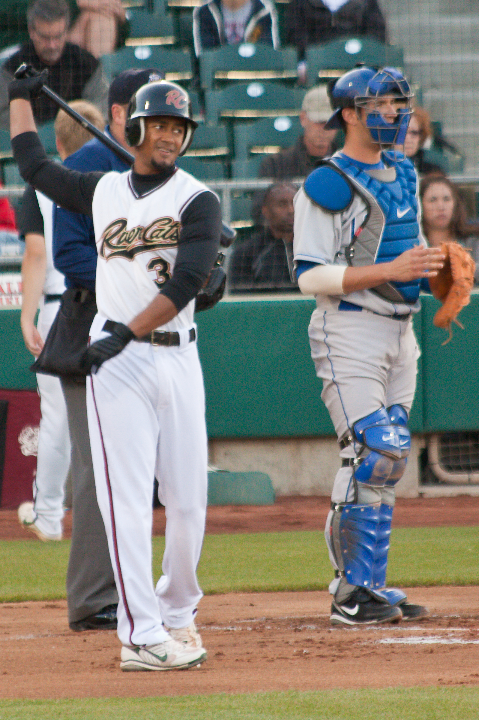 Description Eric Patterson at bat for the Sacramento Rivercats Date25 April 2009SourceOwn workAuthorFabrictramp / talk to mePermission (Reusing this file) I own the copyright 18:01, 30 April 2009 . . Fabrictramp . . 1,597×2,397 (4.04 MB) Eric Patterson at bat for the Sacramento Rivercats